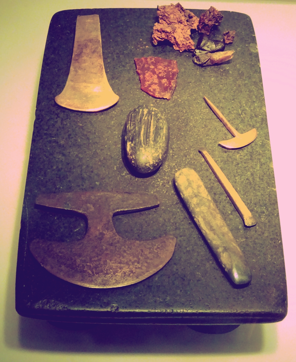 Gold and wax working tools made by the Muisca to create the tunjos and other golden or tumbaga figures, Museo del Oro, Bogotá